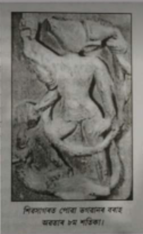 Statue of Lord Vishnu in Varaha form found in Sibsagar dating back to the 9th century. This deity was worshipped by the Borahi Chutias.